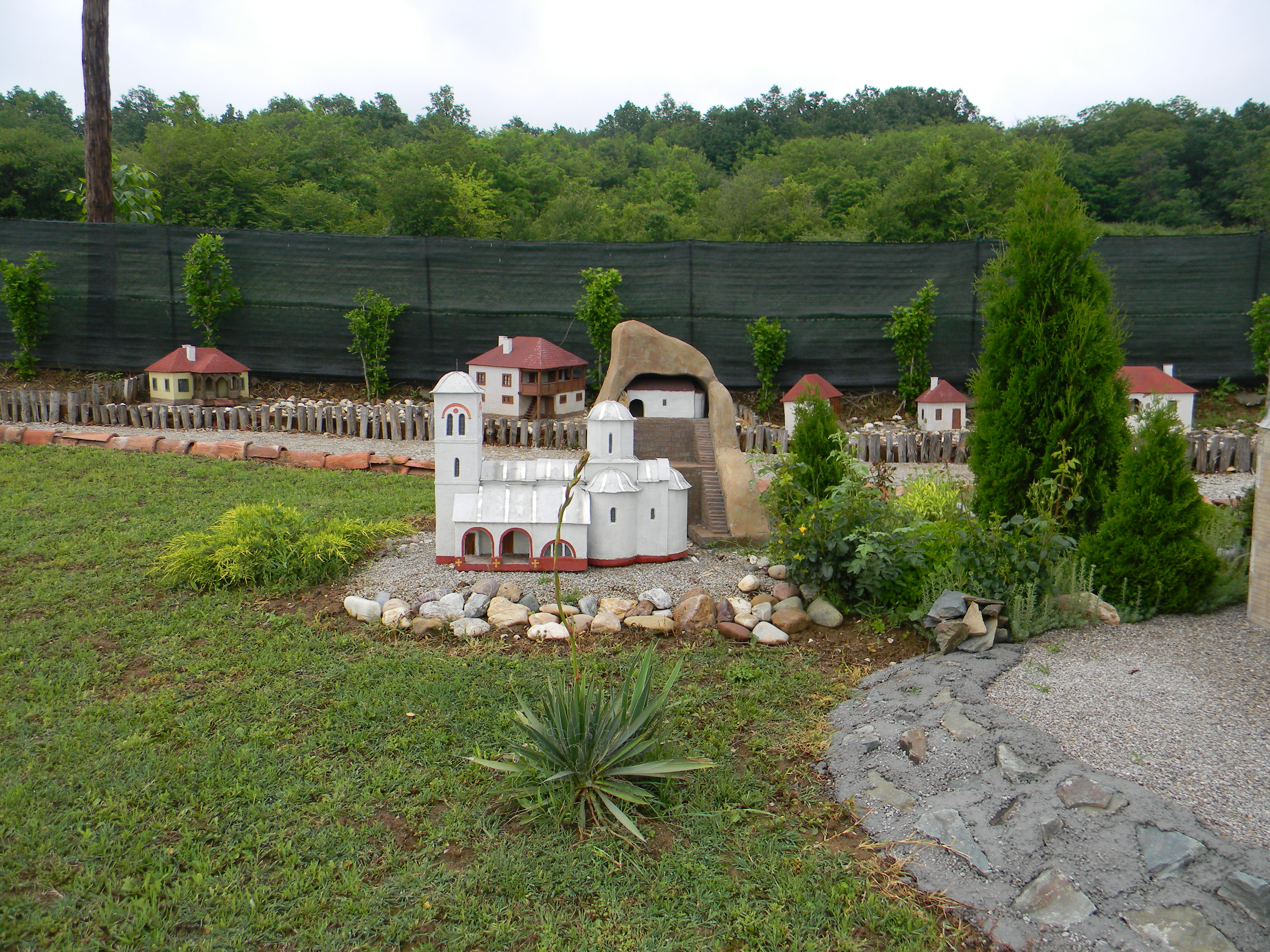 Miniature park in Despotovac, Serbia